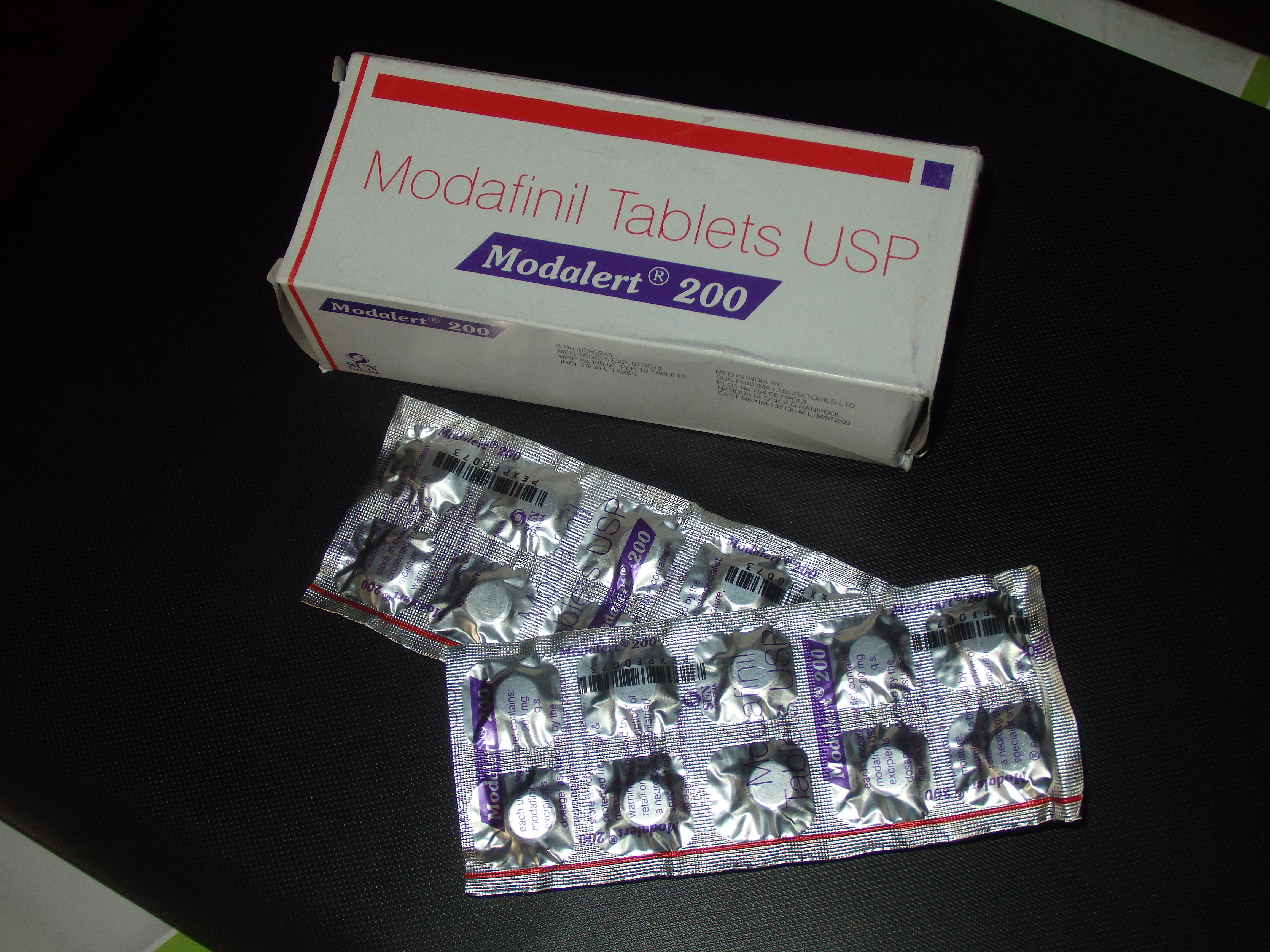 Modafinil tablets USP - Modalert 200